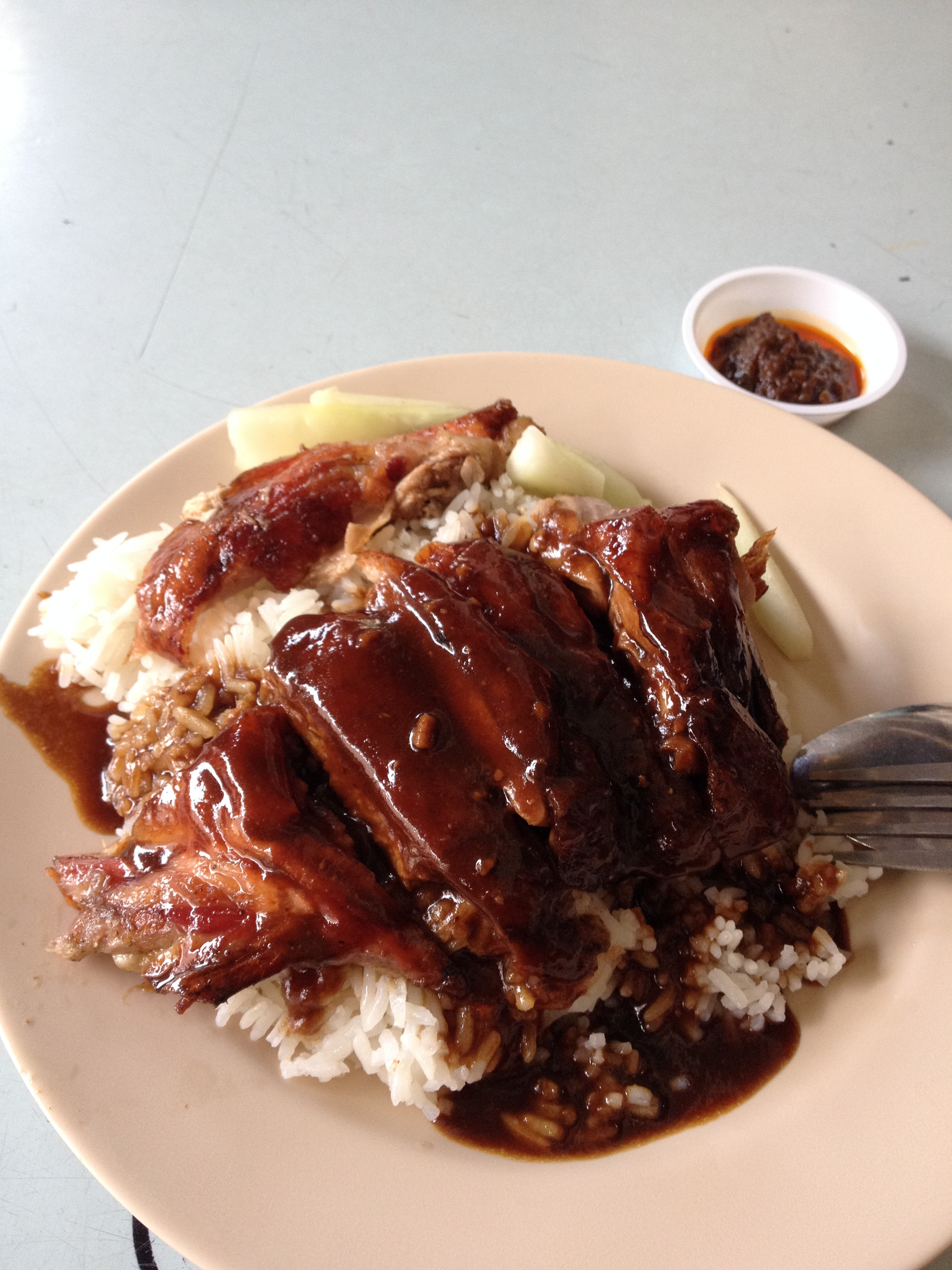 Cantonese style roast duck with rice.